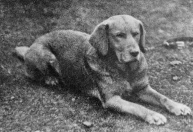 Ben of Hyde (b.1899), the first registered yellow labrador in the world.